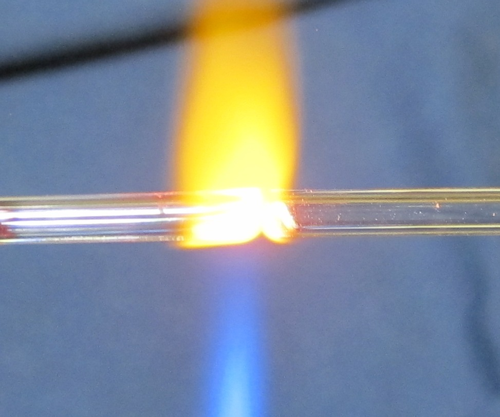 Welding two glass tubes together. The tubes are made of lead glass and are used as filling tubes for neon lighting. The OD is 5mm and the ID is 3mm. The torch is a simple, handheld propane-torch, and the tubing is held right at the tip of the flame to avoid overheating the glass (which causes the lead to conglomerate at the surface, making the glass appear metallic). The welding is accomplished by heating the glass to red-hot while spinning the tubes to prevent cracking. Holding then at a slight angle, the edges are touched together and rotated to seal it together around the circumference. Then pressing to fatten the weld and pulling to thin the weld to the necessary 1 mm thickness, all while blowing slightly to maintain a tubular shape. This photo was taken the moment the two tubes touch.